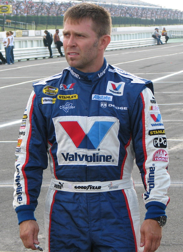 NASCAR driver Scott Riggs at Pocono Raceway during qualifying for the Pennsylvania 500 race. Picture has been cropped and scaled down from the original.